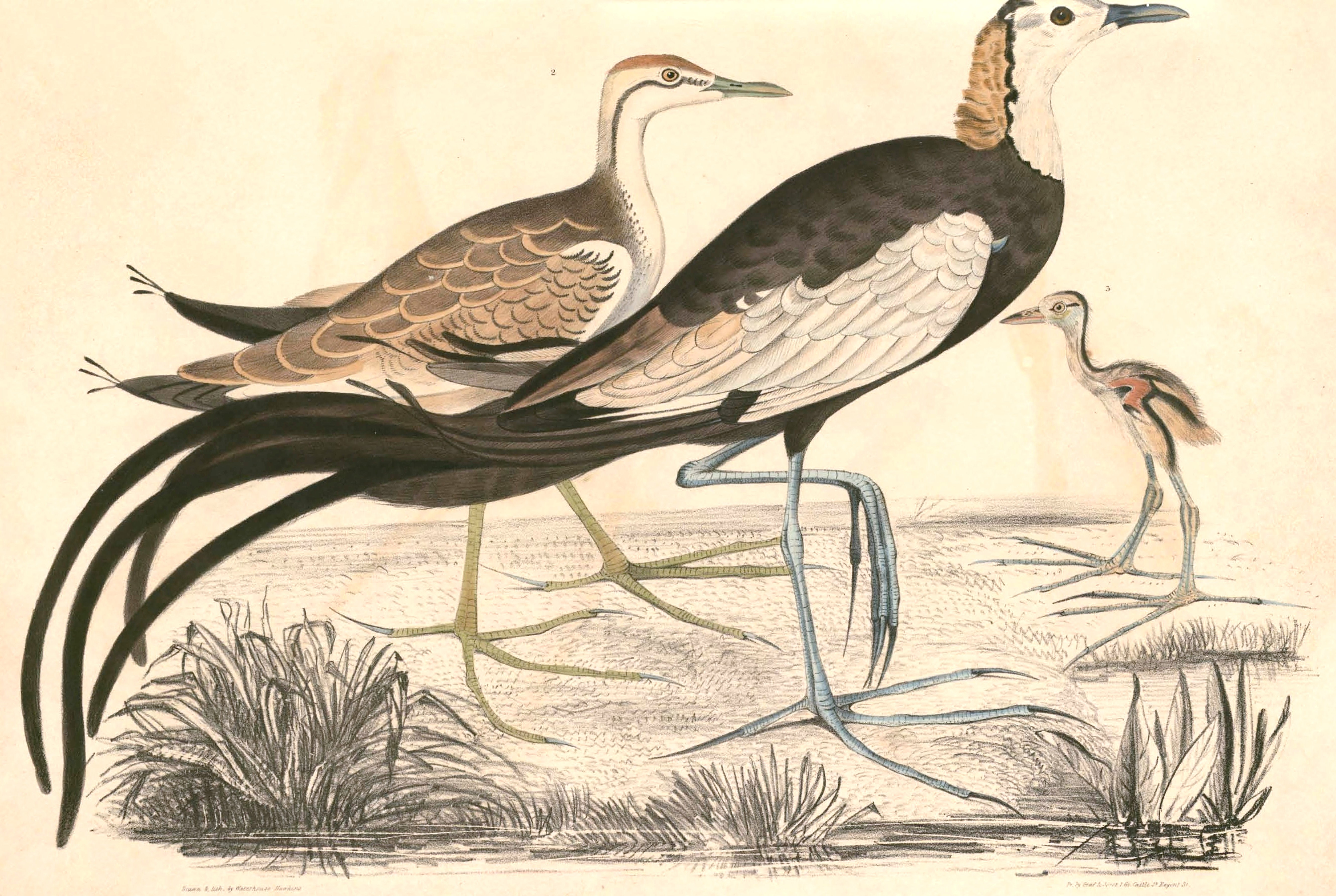 « Parra sinensis » = Hydrophasianus chirurgus (Pheasant-tailed Jacana)